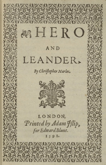 Title page of Marlowe's Hero and Leander, 1598